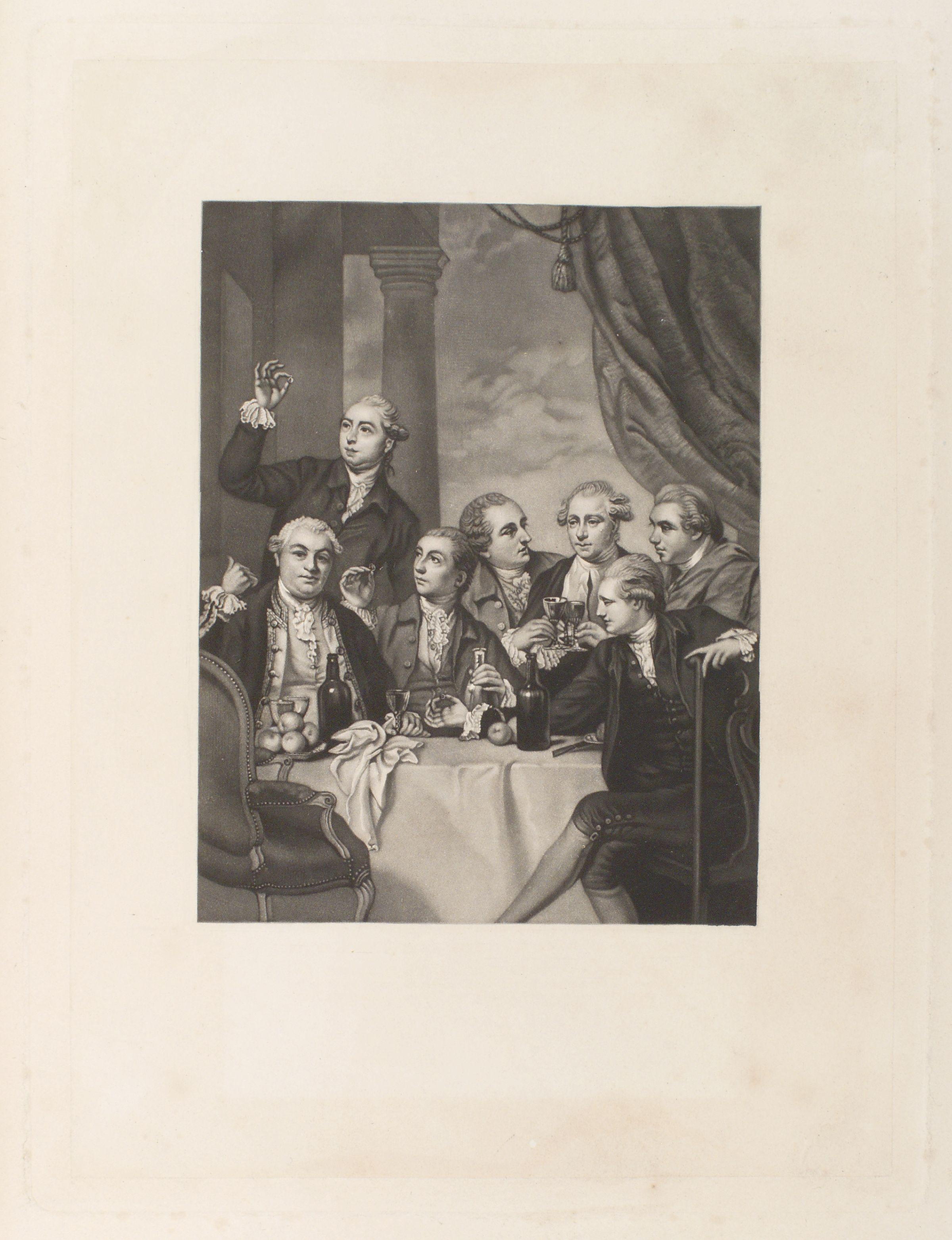 The Dilettanti Society, by Sir Joshua Reynolds (died 1792). All images in this batch have been confirmed as author died before 1939 according to the official death date listed by the NPG.